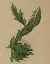 Stainton’s Natural History of the Tineina (1855–1873): Exaeretia culcitella a leaf of Chrysanthemum corymbosum attacked by larva